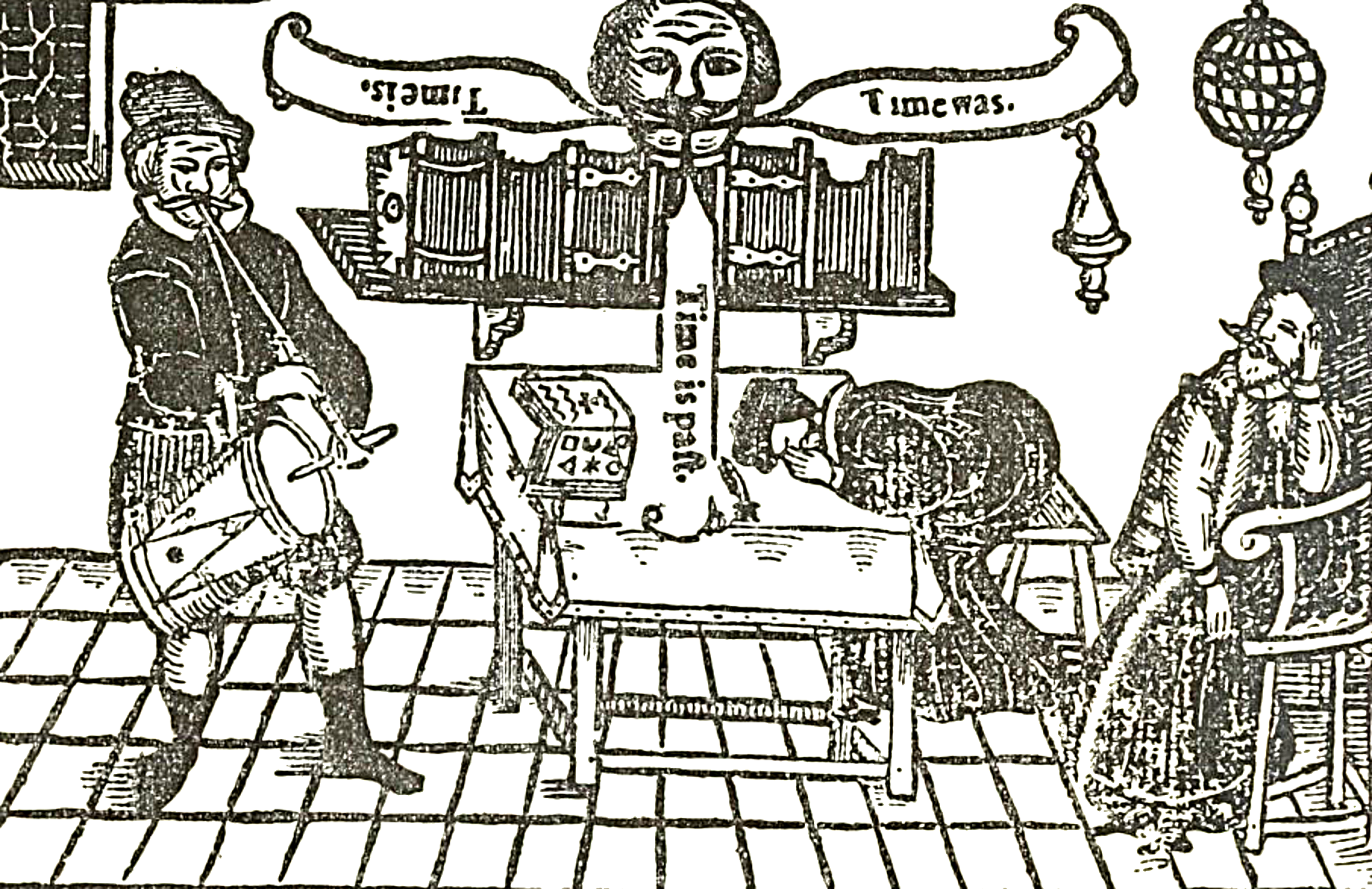 A woodblock engraving of Miles playing the tambour while friars Bacon and Bungay sleep and the Brazen Head speaks "Time Is. Time Was. Time Is Past." From the 1630 edition of Robert Greene's The Honorable Historie of Frier Bacon, and Frier Bongay.